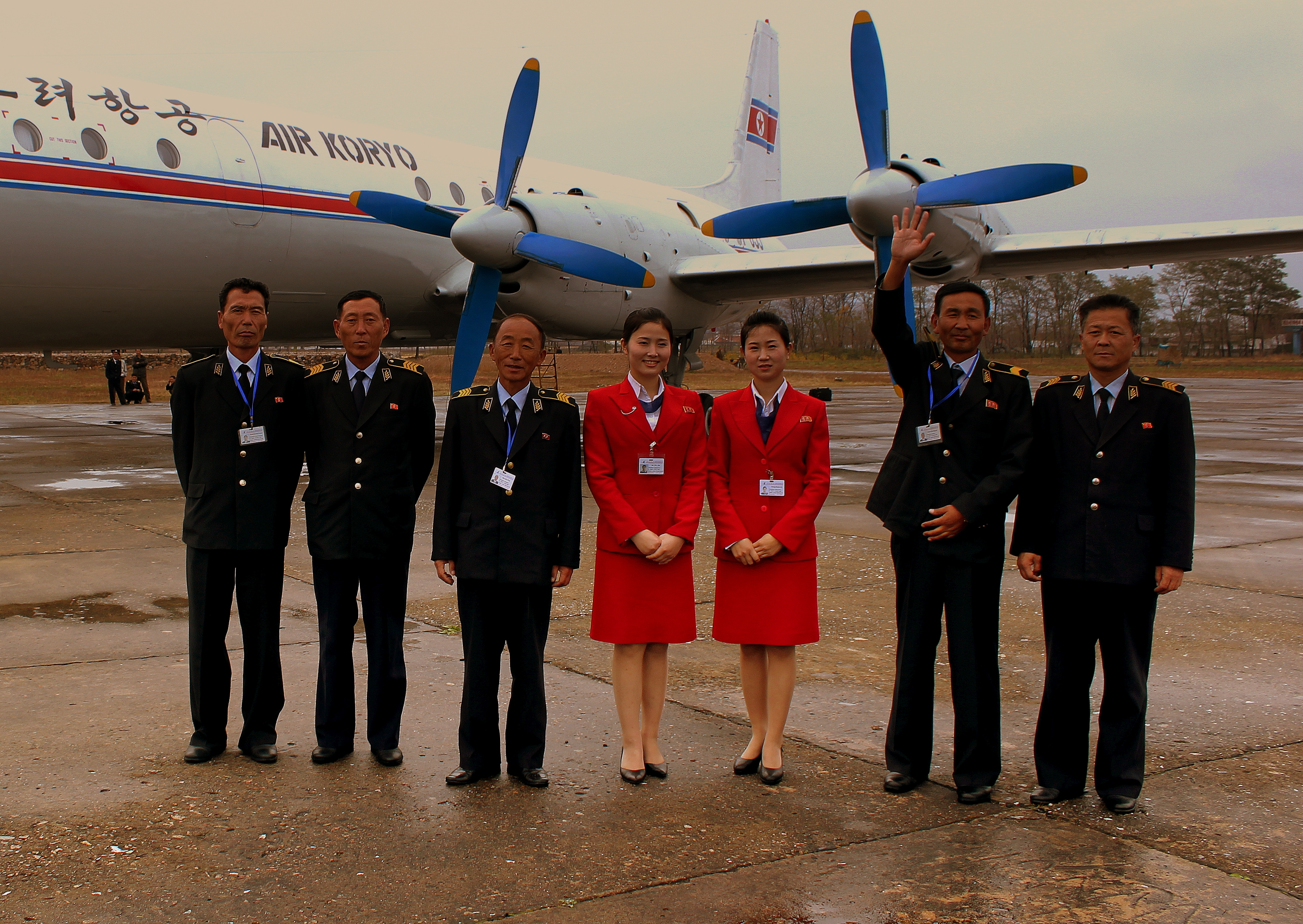 CREW OF AIR KORYO IL18 P835 AT ORANG MOUNT CHILBO AIRPORT DPRK NORTH KOREA OCT 2012